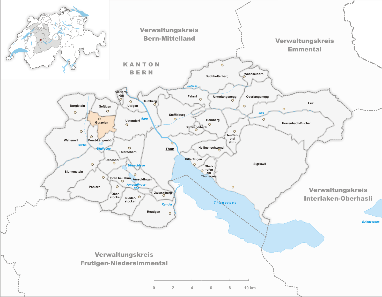 Municipality Gurzelen